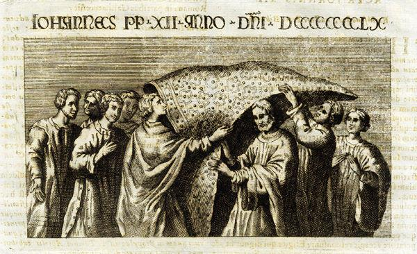 Antique Print-POPE JOHN XII from Bollandus-Bouttats